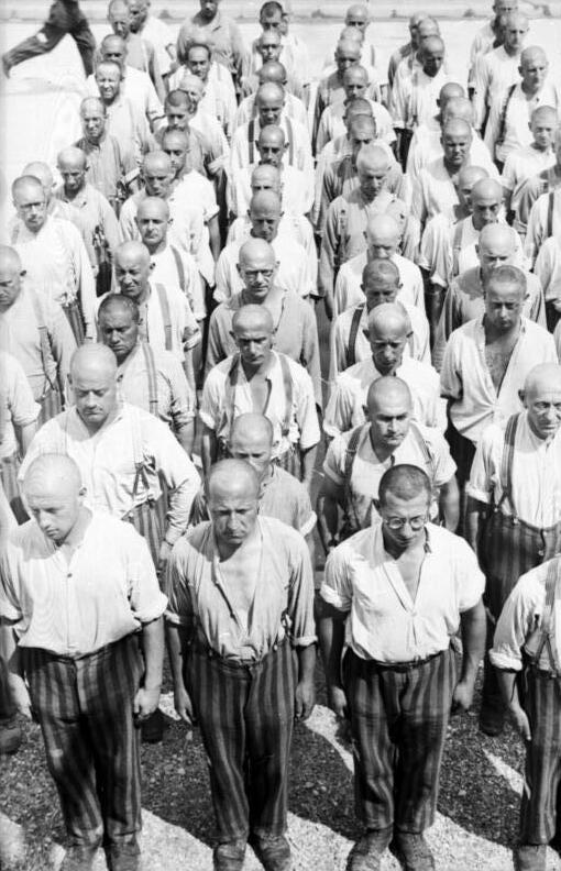 Dachau concentration / protective custody camp. Prisoners at attention (for roll call), June 28, 1938.